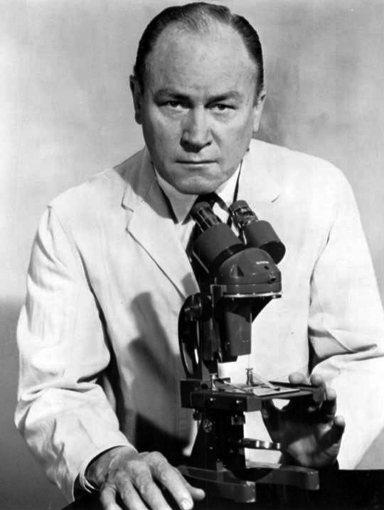 Photo of E. G. Marshall as Doctor David Craig from the television program The Bold Ones: The New Doctors.